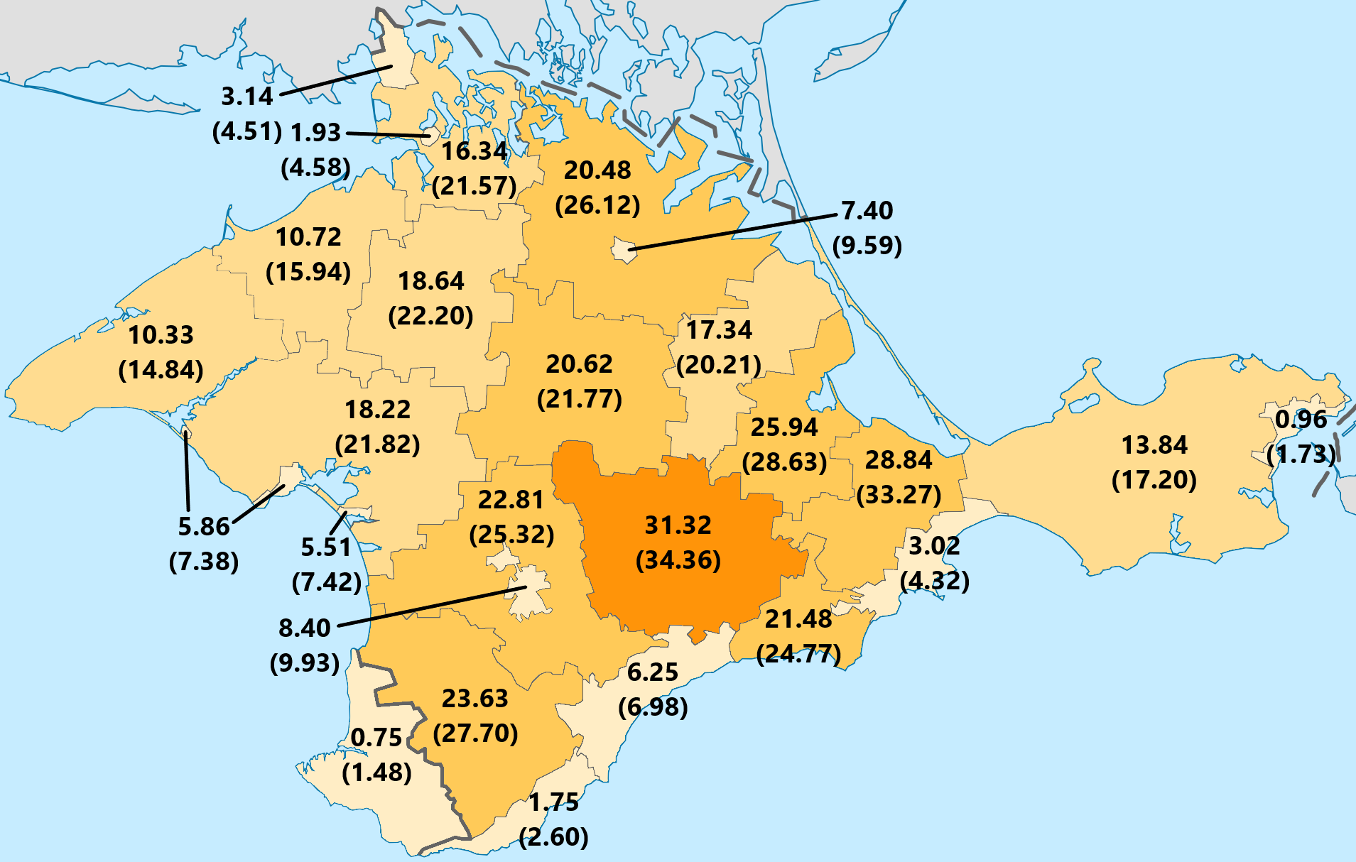 the map shows the official data of the share of the Crimean Tatar population (as the share among those who answered the question of nationality); in brackets is the total share of those who answered the question of nationality "Crimean Tatar" and simply "Tatar". During the 2014 census, a significant part of those who indicated the nationality "Tatar" in the census were actually Crimean Tatars. In the 2001 census, 13.6 thousand Russians and Ukrainians accounted for more than 2,027. 0 thousand. Tatars, that is, 149 Russians and Ukrainians accounted for 1 Tatar (according to the 1989 census-210, and the 1979 census - 208). Russian Russians and Ukrainians accounted for 45.0 thousand Tatars in the 2014 census, that is, for 40.8 Russians and Ukrainians there was 1 Tatar, which indicates that the vast majority of the so-called "Tatars" in the 2014 census were actually Crimean Tatars.